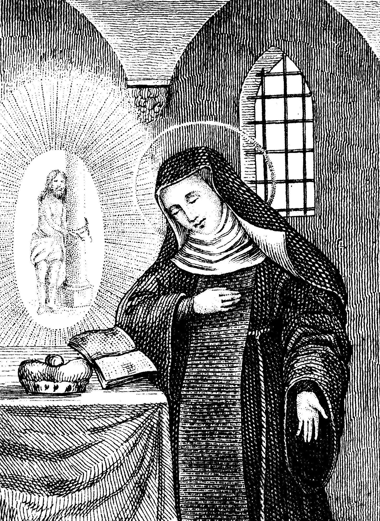 Jolenta of Poland.